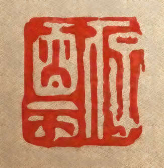 Digital painting of Hu Zhengyan's seal, based on [1].